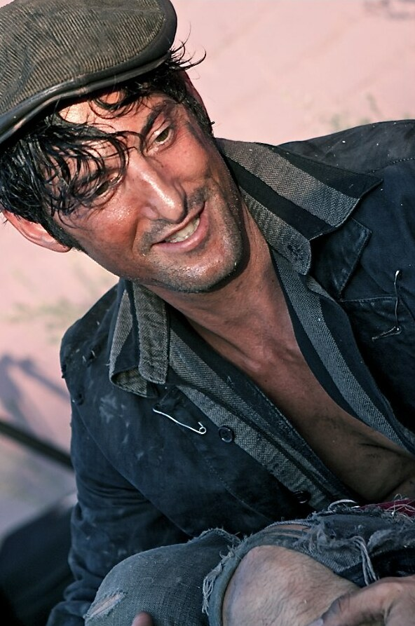 Tony Ward L.A. Zombie